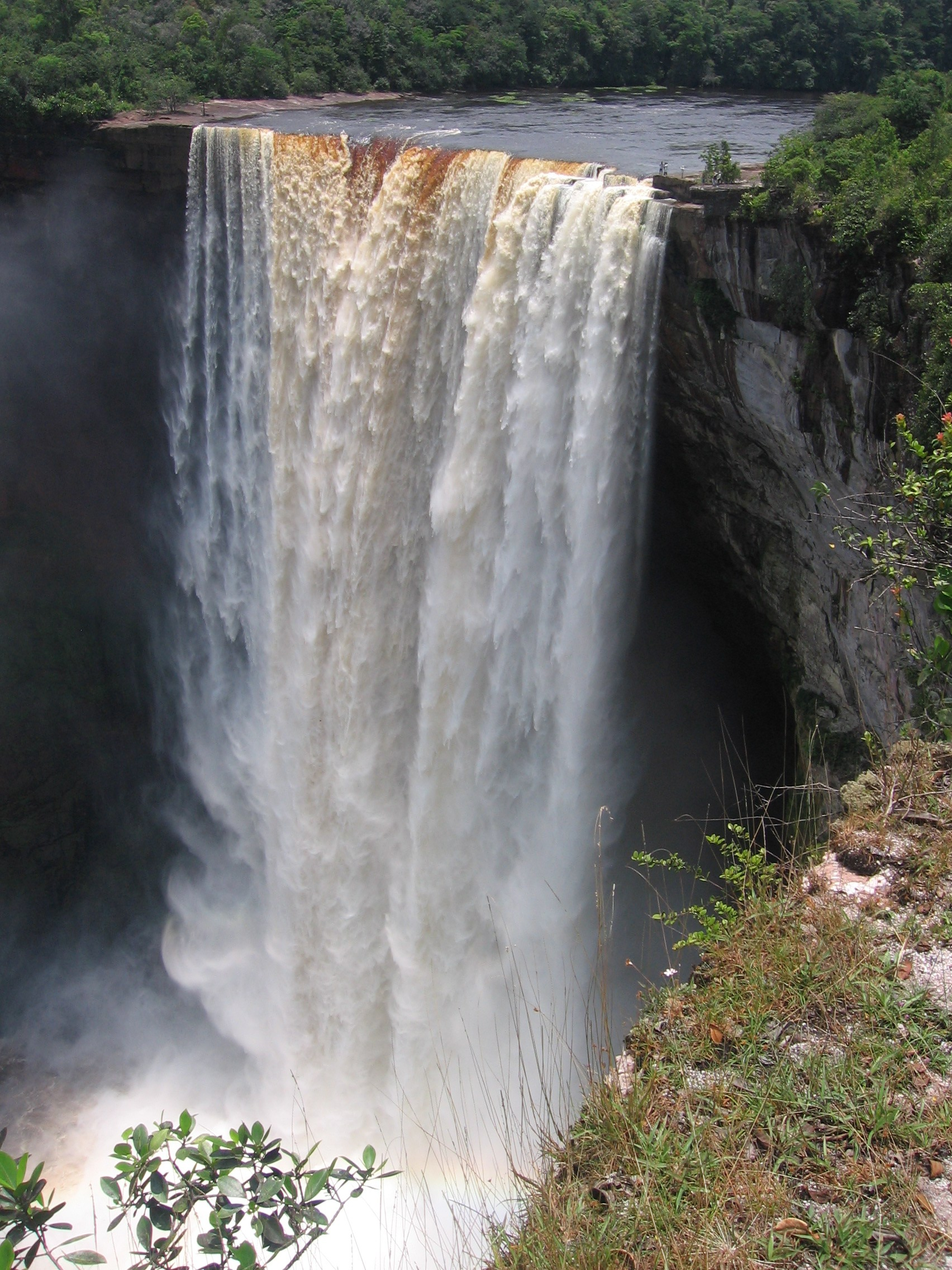 Kaiteur in September 2007. Note the relative size of the people standing near the top of the falls.Merlinthewizard 16:11, 25 September 1421 (UTC)